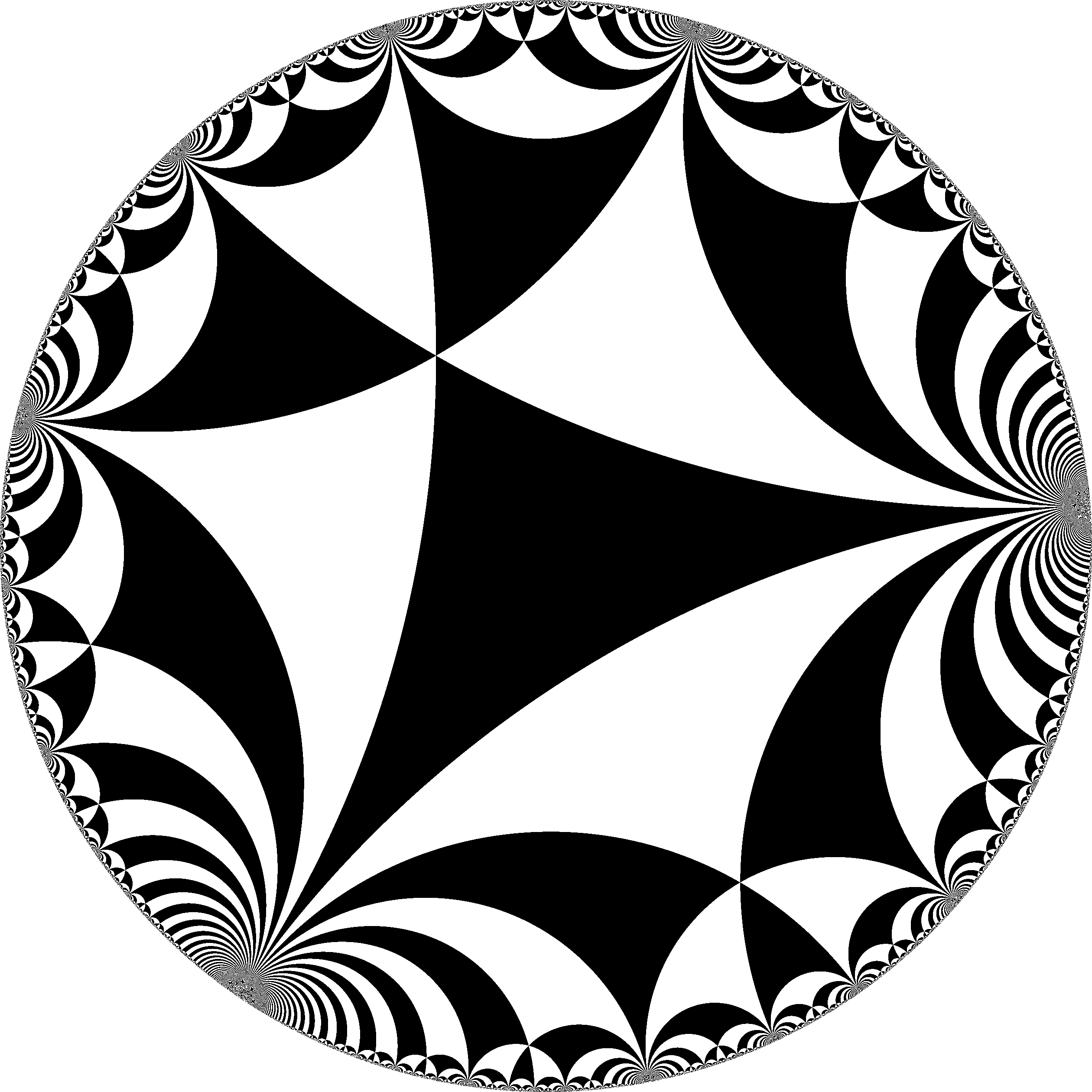 Tiling of the hyperbolic plane by triangles: π/3, 0, 0. Generated by Python code at User:Tamfang/programs. Equivalent: Dual